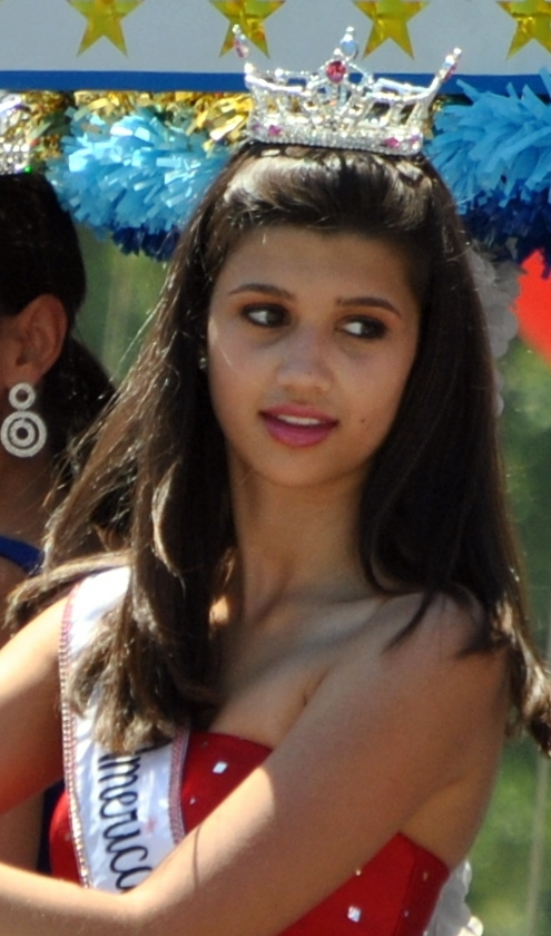 Jeanette Morelan, Miss America's Outstanding Teen 2010 in an Independance Day Parade July 4, 2010 Washington DC